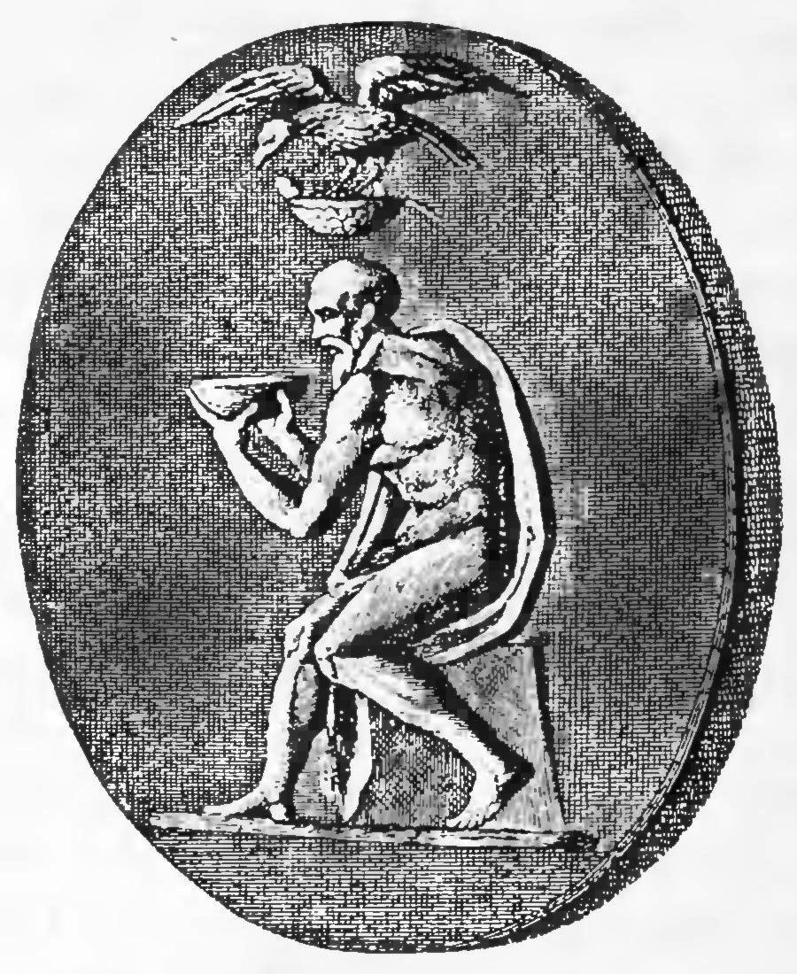 Portrait of Aeschylus, in The Tragic Drama of the Greeks by Arthur Elam Haigh (1896). From the cast in the Oxford University Galleries.